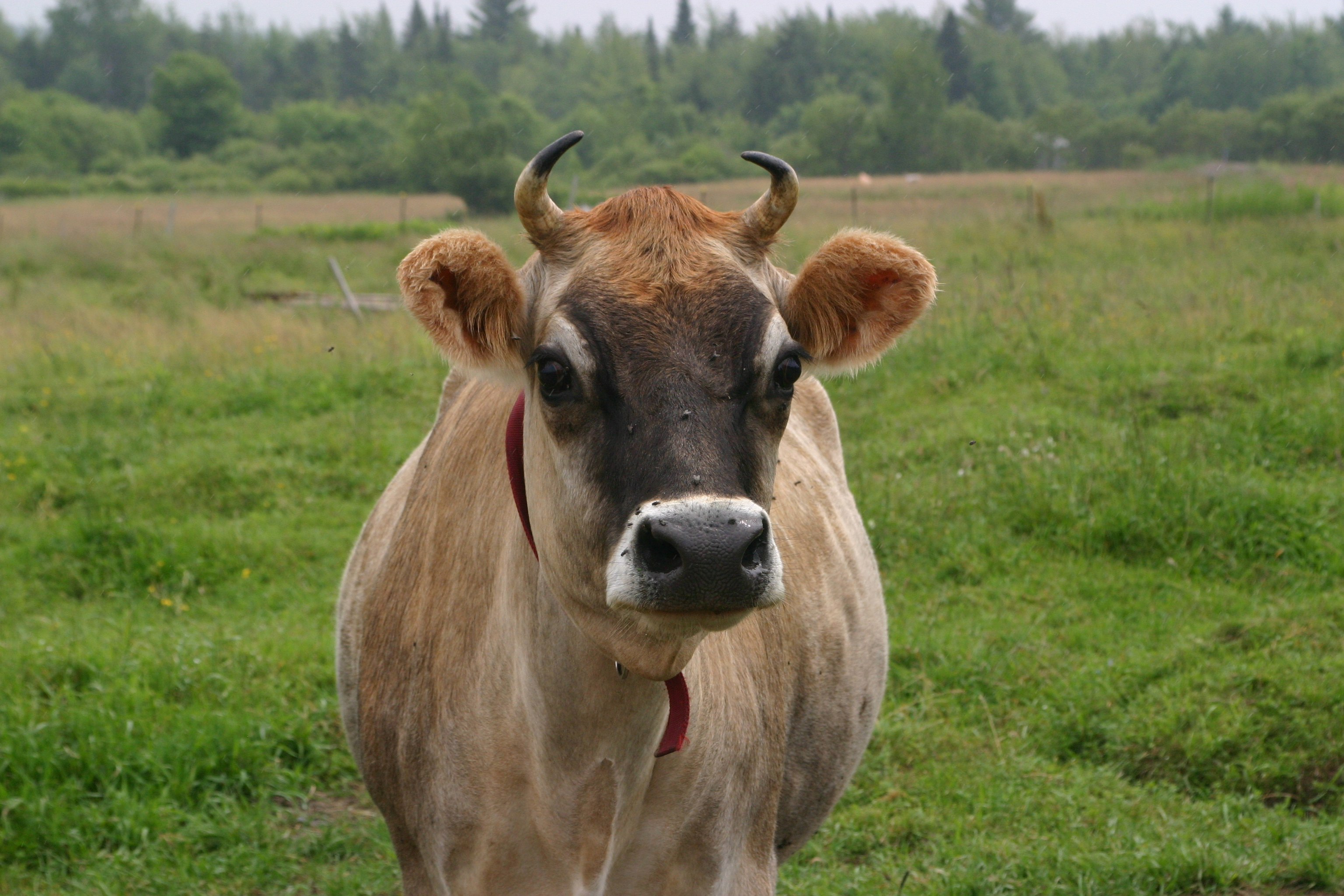 Close-up of a Jersey cow.